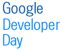 This is a logo owned by Google for Google Developer Day.